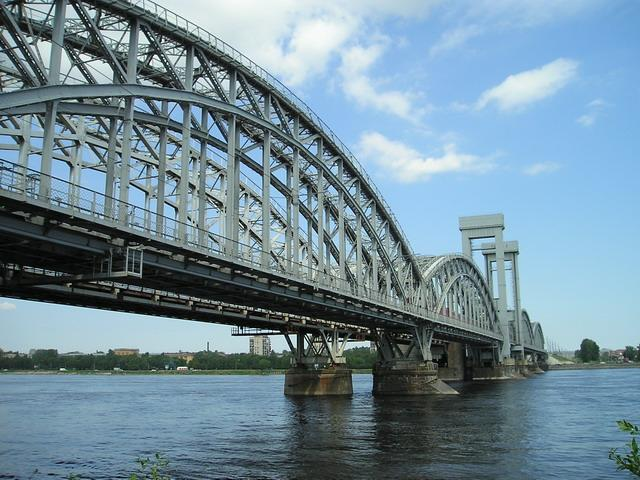 Finnish railway bridge.